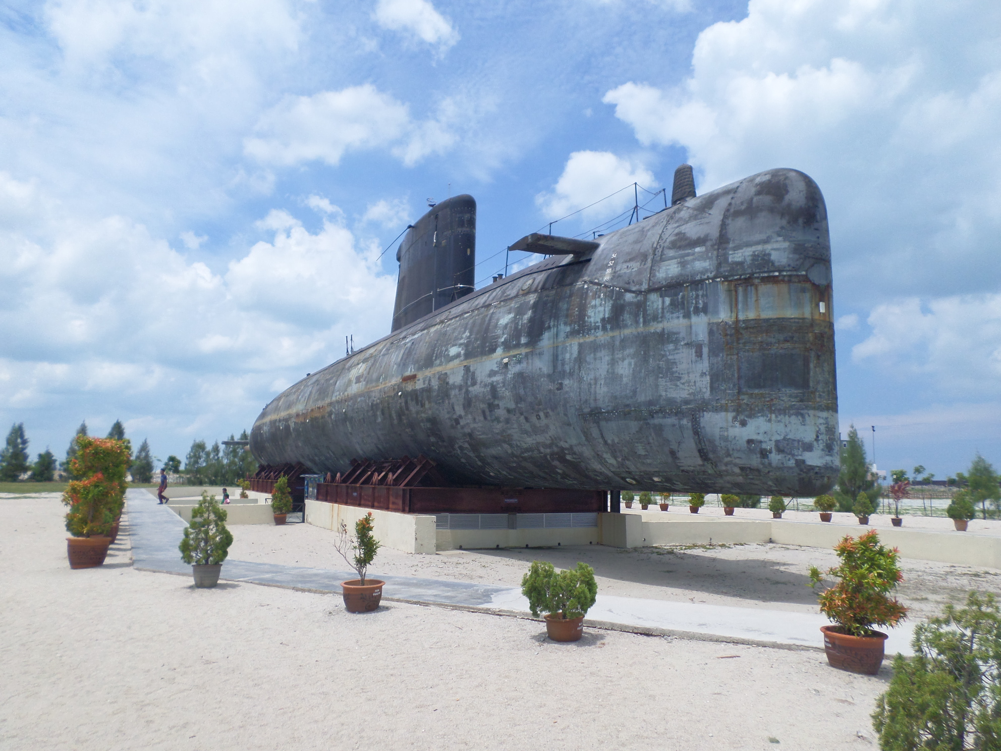 Submarine Museum, Klebang, Malacca, MalaysiaBahasa Melayu: Muzium Kapal Selam, Klebang, Melaka, Malaysia